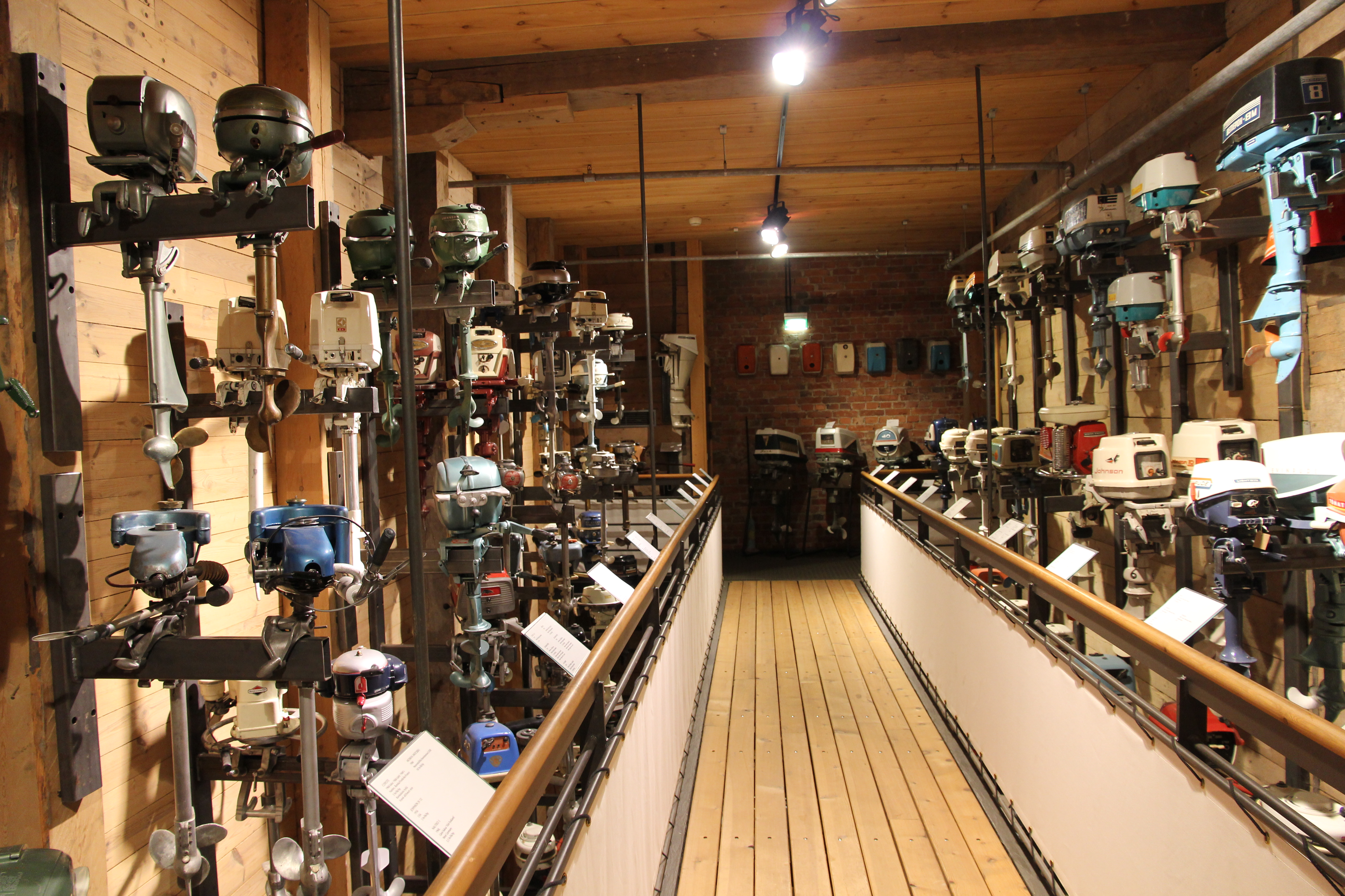 Outboard motor collection in Forum Marinum maritime museum. View from second level.